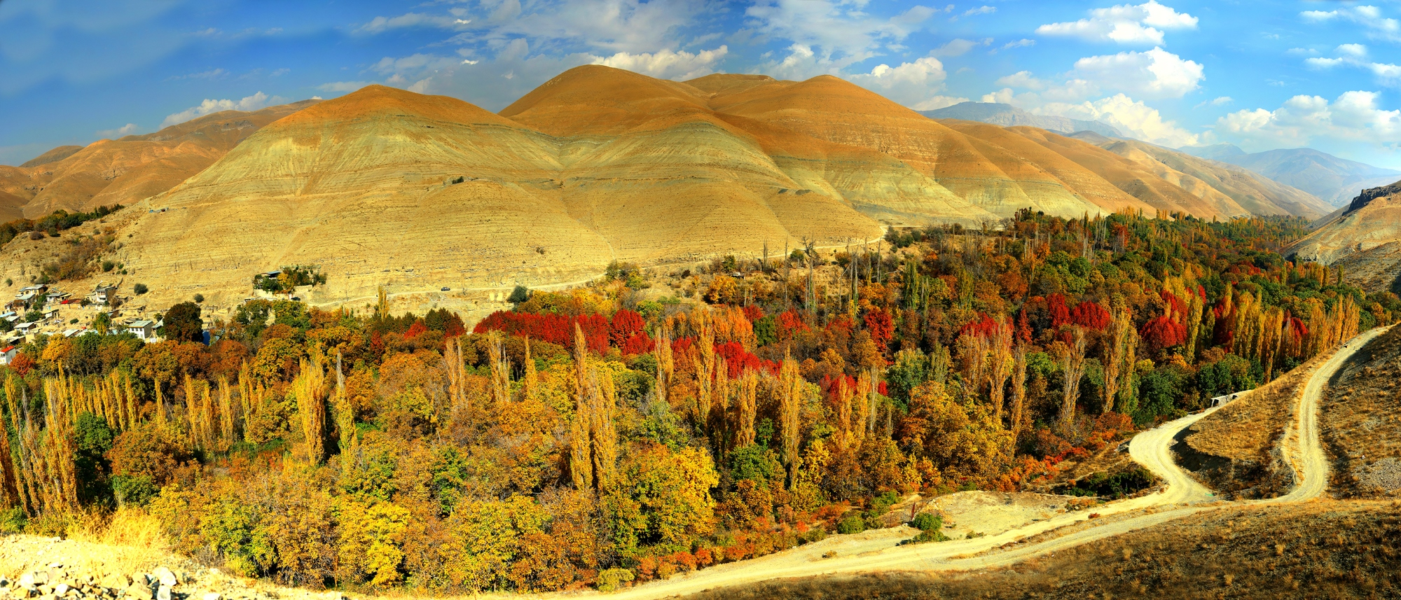 Baraghan (Persian: برغان, also Romanized as Baraghān and Barakān) is a village in Baraghan Rural District, Chendar District, Savojbolagh County, Alborz Province, Iran. At the 2006 census, its population was 378, in 139 families.